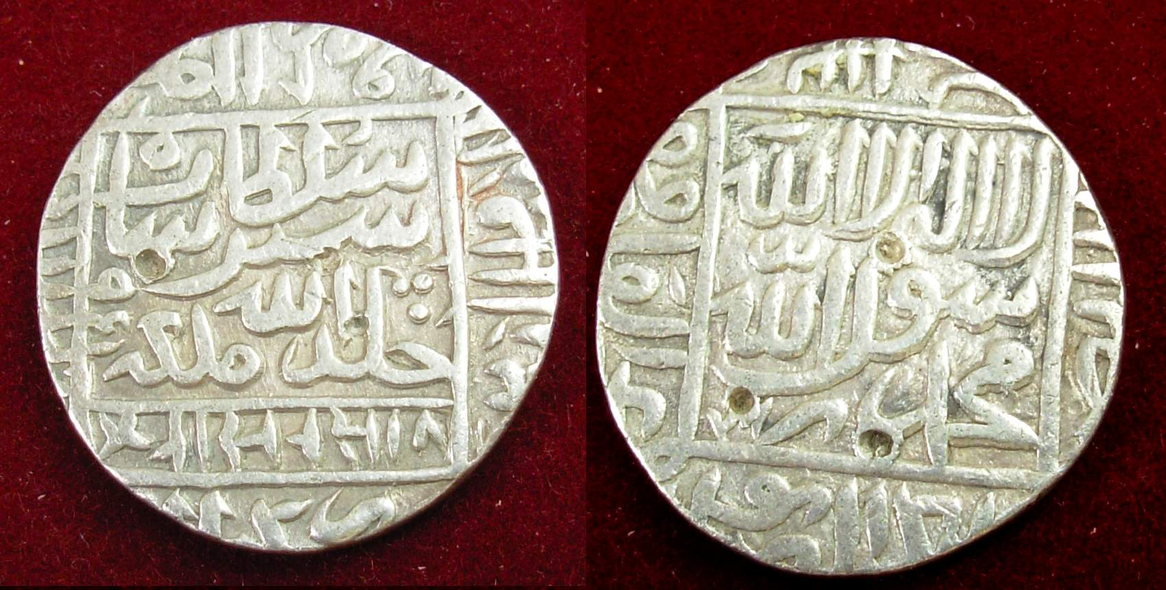 First Rupee, a Rupiya Silver coin, issued by Sher Shah Suri r. 1540-1545 CE. image from personal collection